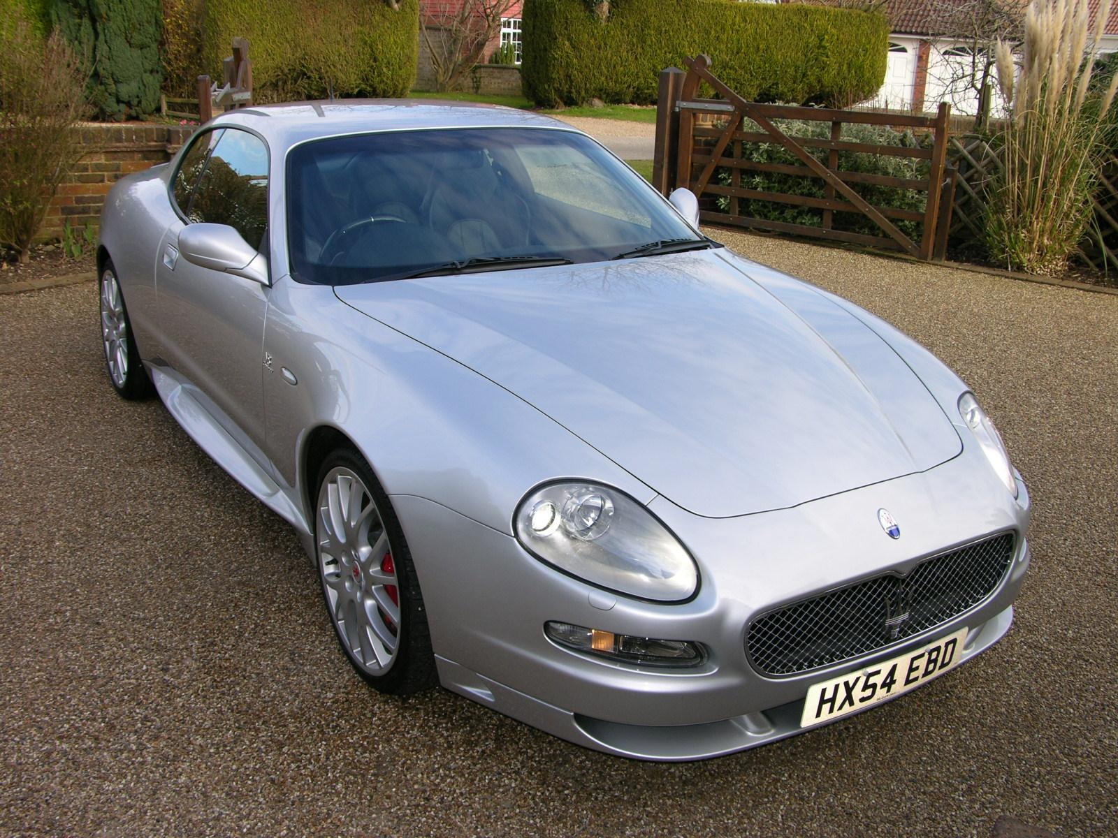 Maserati 4200 Coupe GranSport